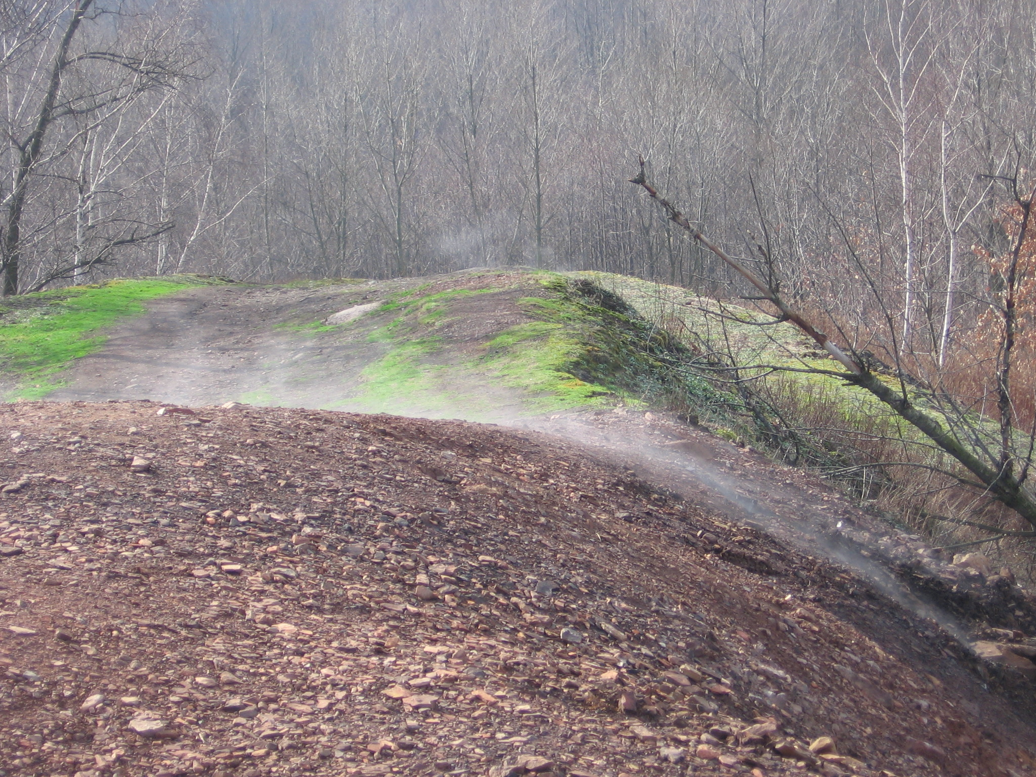 Smokes of Heap Ema in Ostrava (Czech Republic)